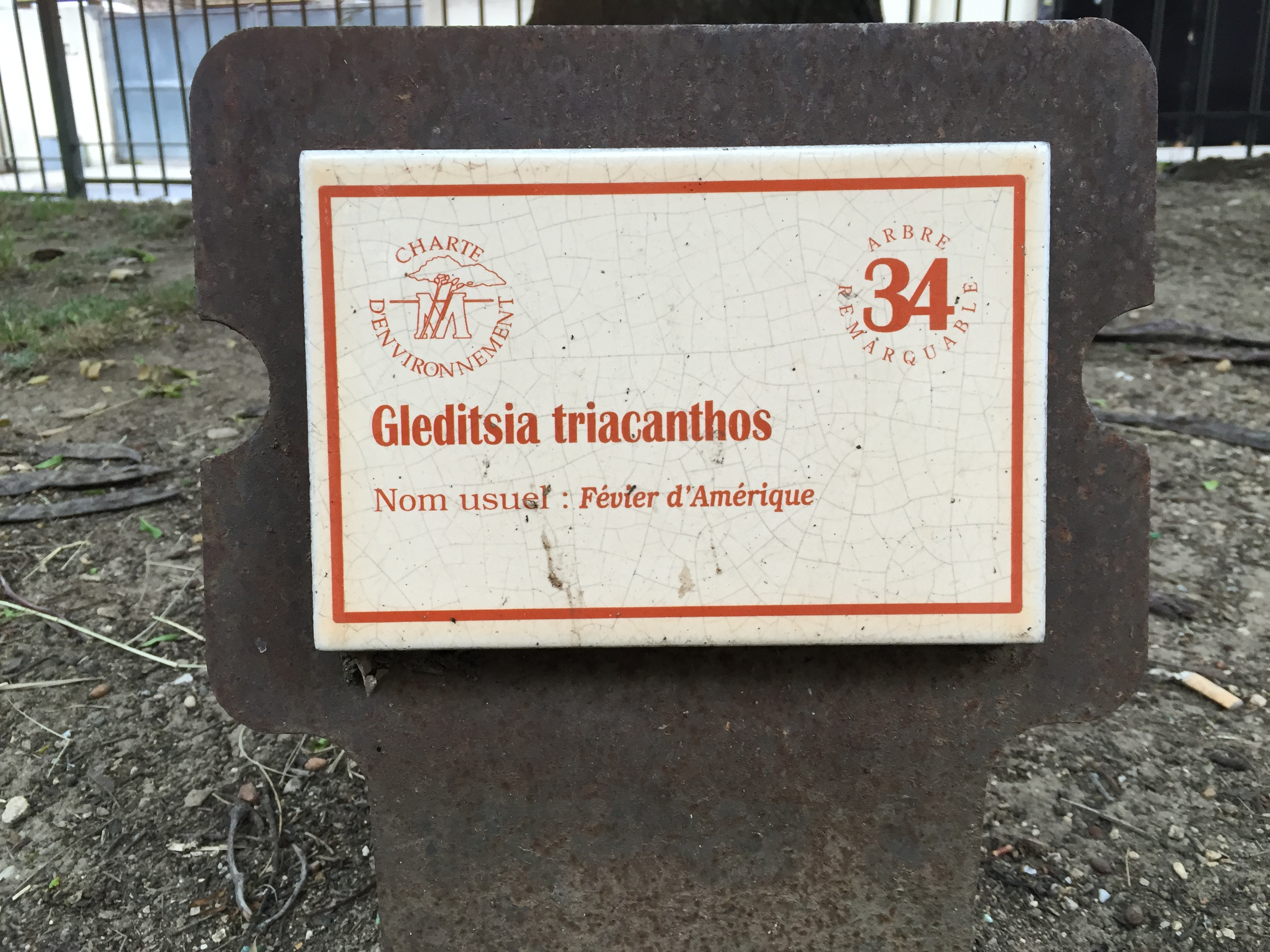 Description plate " Gleditsia triacanthos (L., 1753) - Honey locust, thorny locust " of the square Planchon at Montpellier (Hérault).